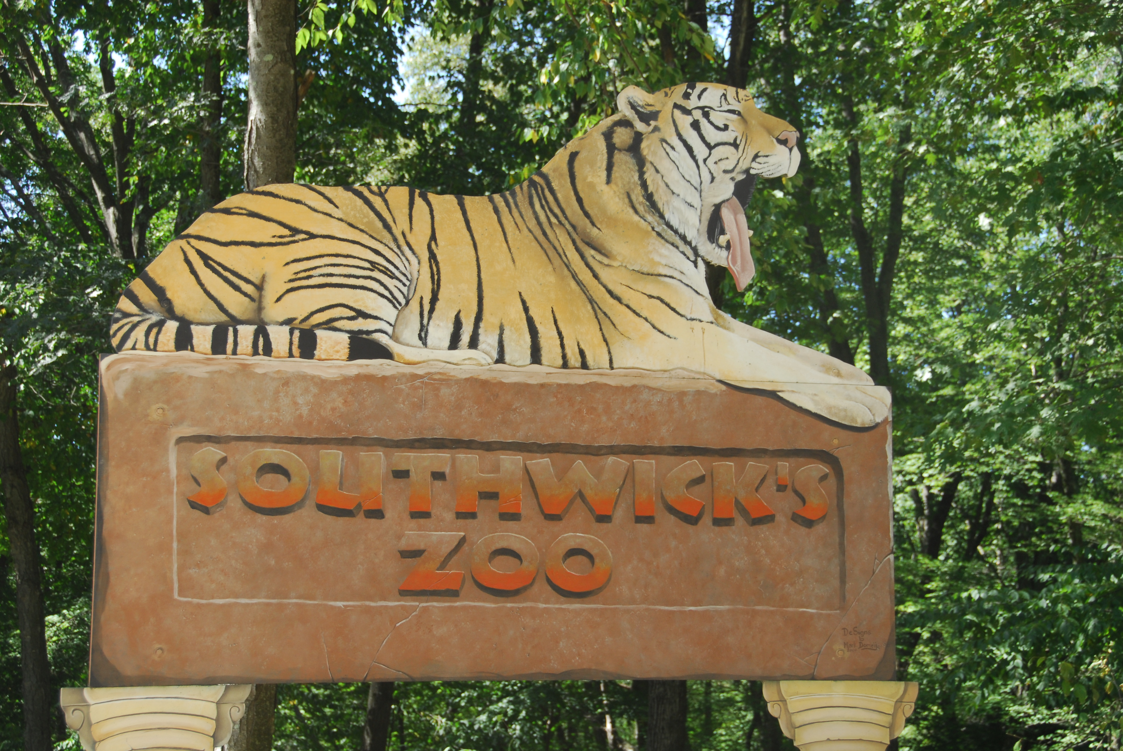 Southwicks Zoo. A sign post.